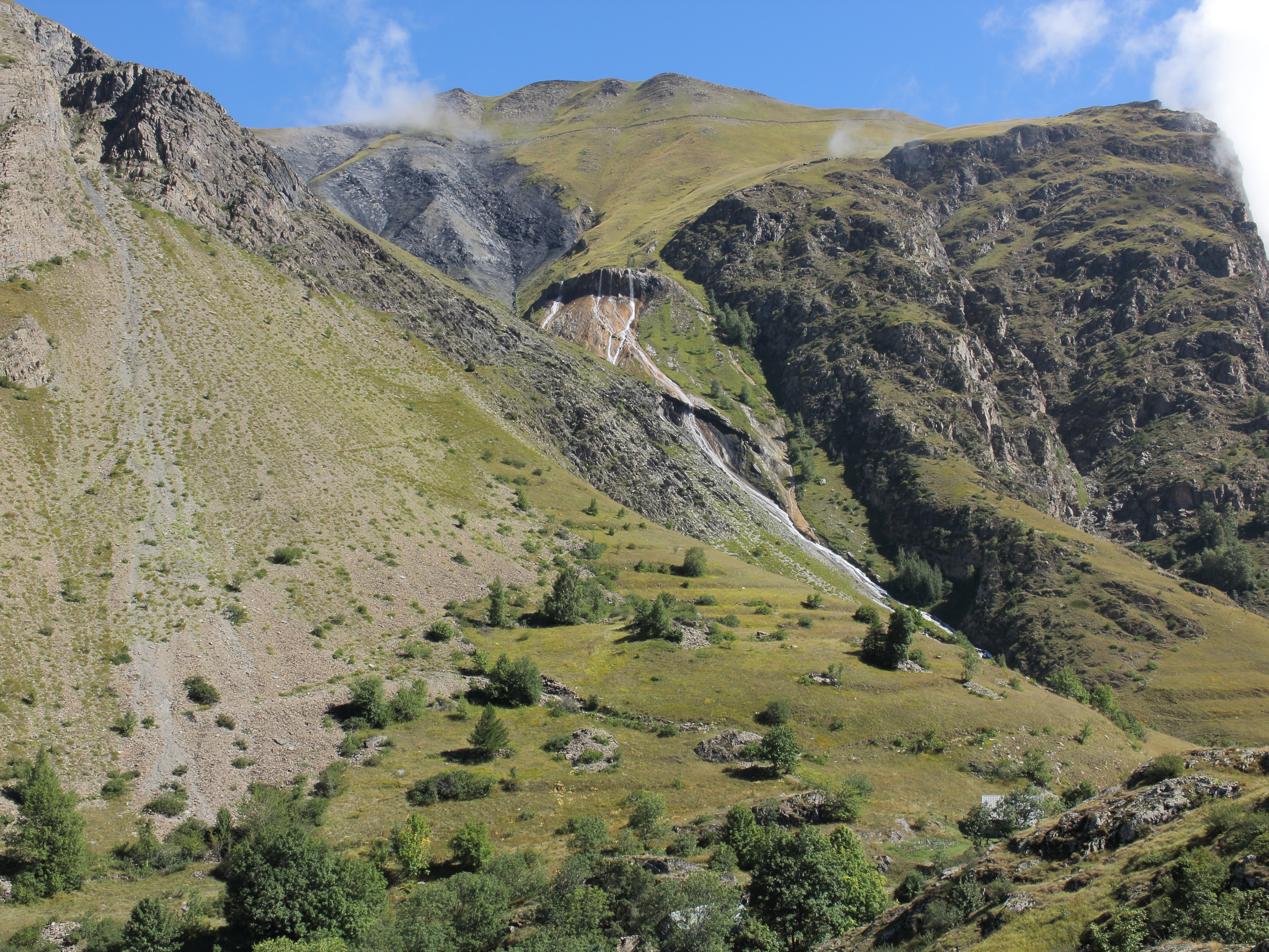 Les Clots, Mizoën, Frankrijk (1540 m.) view Fontaine Petrifiante